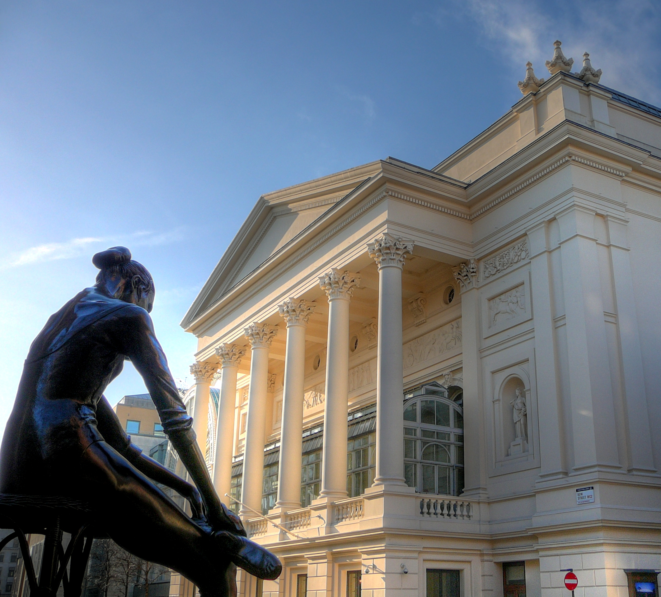 The Royal Opera House, Bow Street frontage, with the statue of Royal Ballerina Katie Pianoff in the foreground